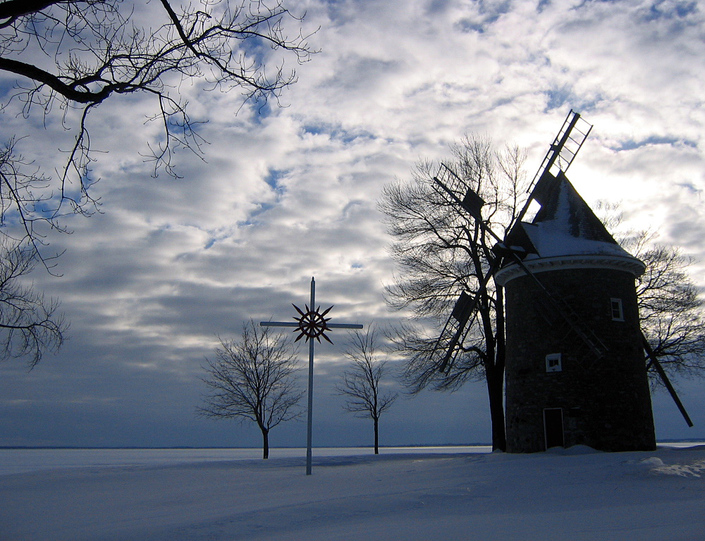 Pointe-Claire's famous windmill.